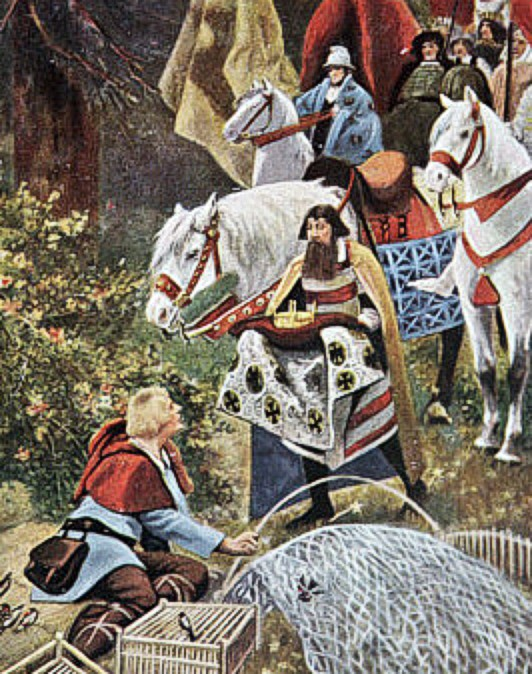 After a painting by Hugo Vogel (1855–1934).